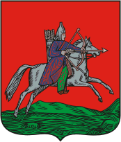 Omsk oblast (Russian empire), coat of arms (1825)